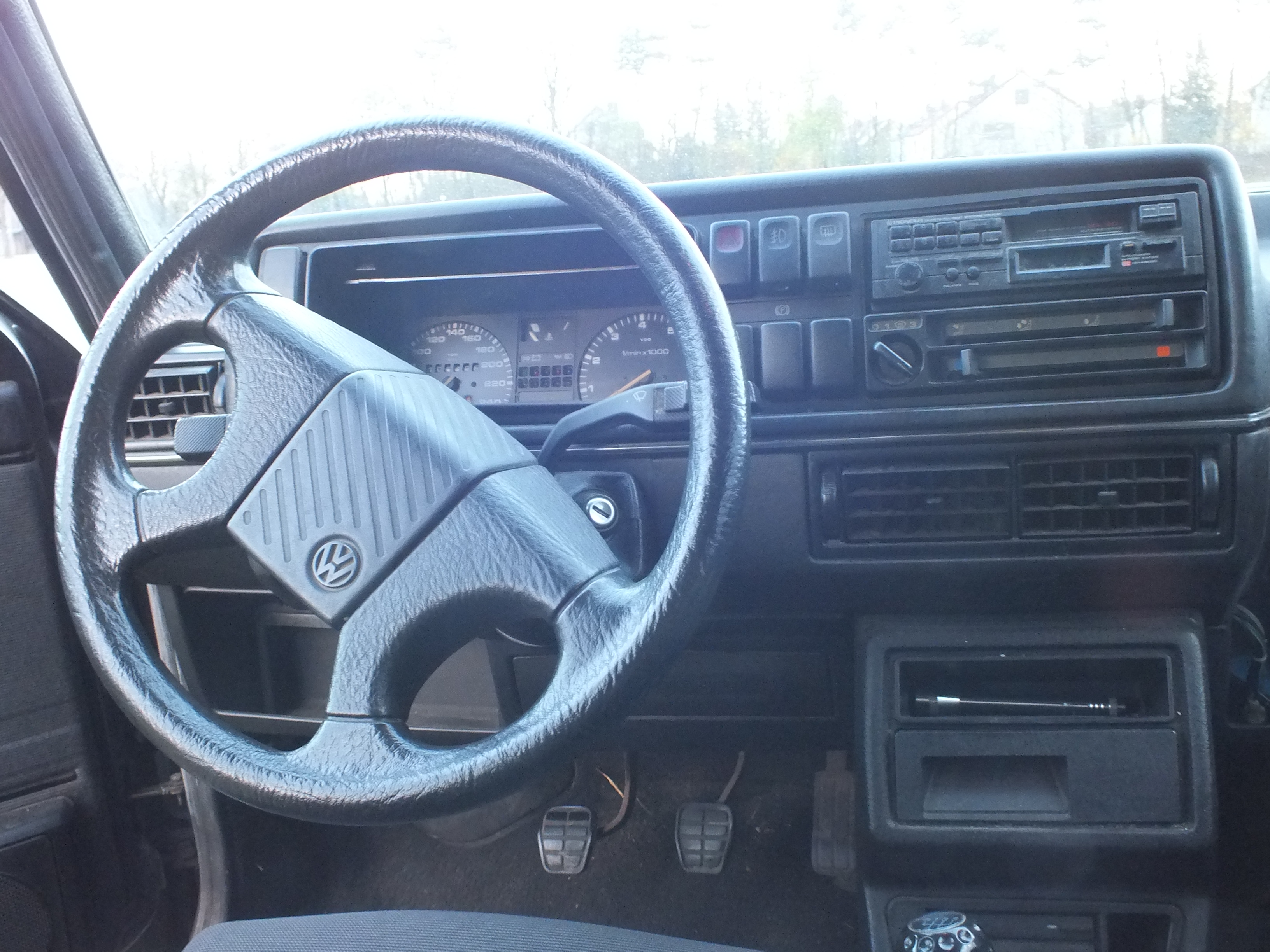 see file name